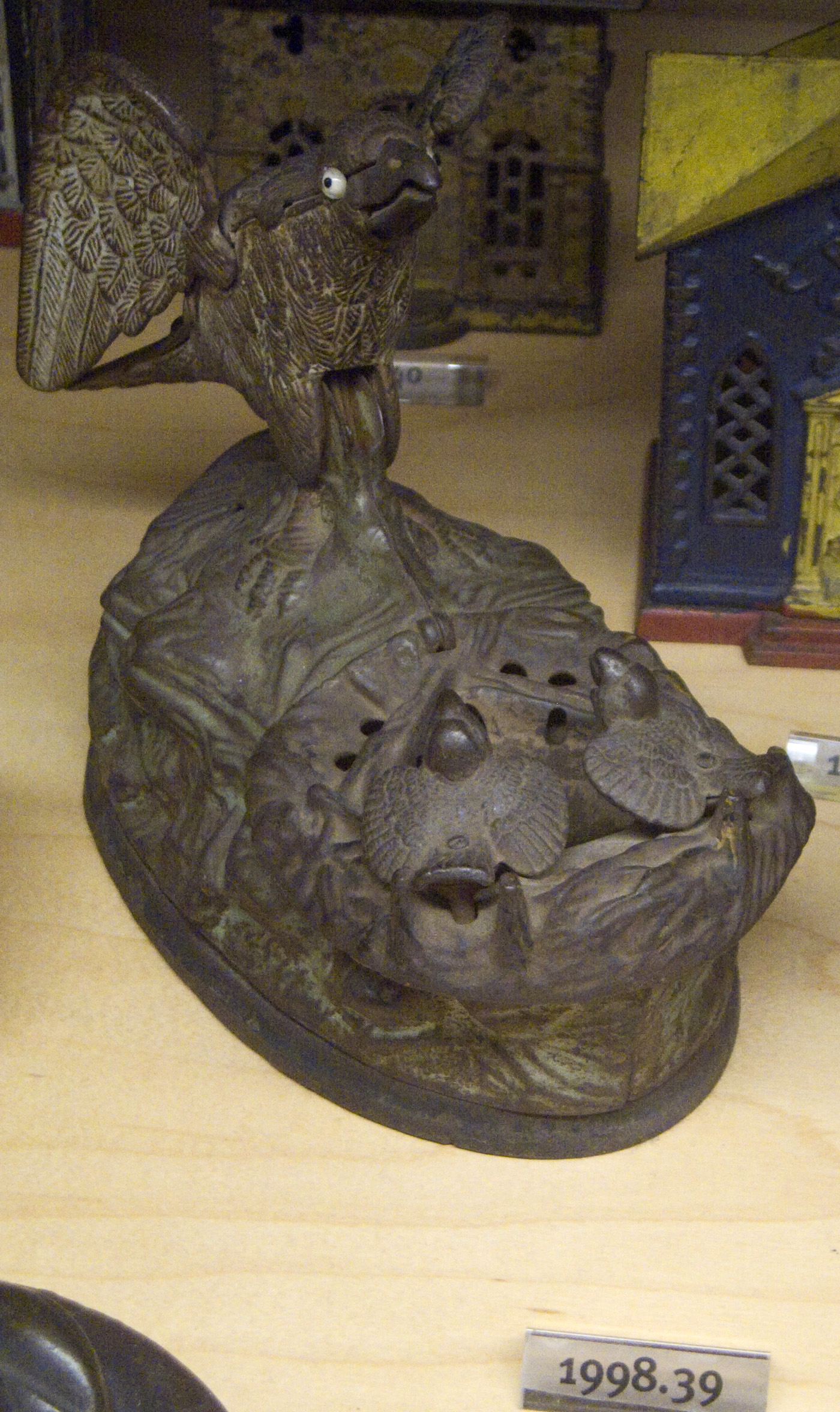 "Eagle and Eaglets" cast iron mechanical bank, ca. 1883. Patented by Charles M. Henn and manufactured J. & E. Stevens Co. Iron, paint: 6 1/2 x 8 1/2 x 3 3/4 in. ( 16.5 x 21.6 x 9.5 cm ). New-York Historical Society, Bequest of Laura Harding, 1998.39. Wikipedia Loves Art at the New-York Historical Society This photo of item # [1] at the New-York Historical Society was contributed under the team name "The_Grotto" as part of the Wikipedia Loves Art project in February 2009. New-York Historical Society The original photograph on Flickr was taken by cjn212—please add a comment to the original Flickr page whenever a use has been made on Wikipedia or another project. Project galleries on Flickr: this institution, this team